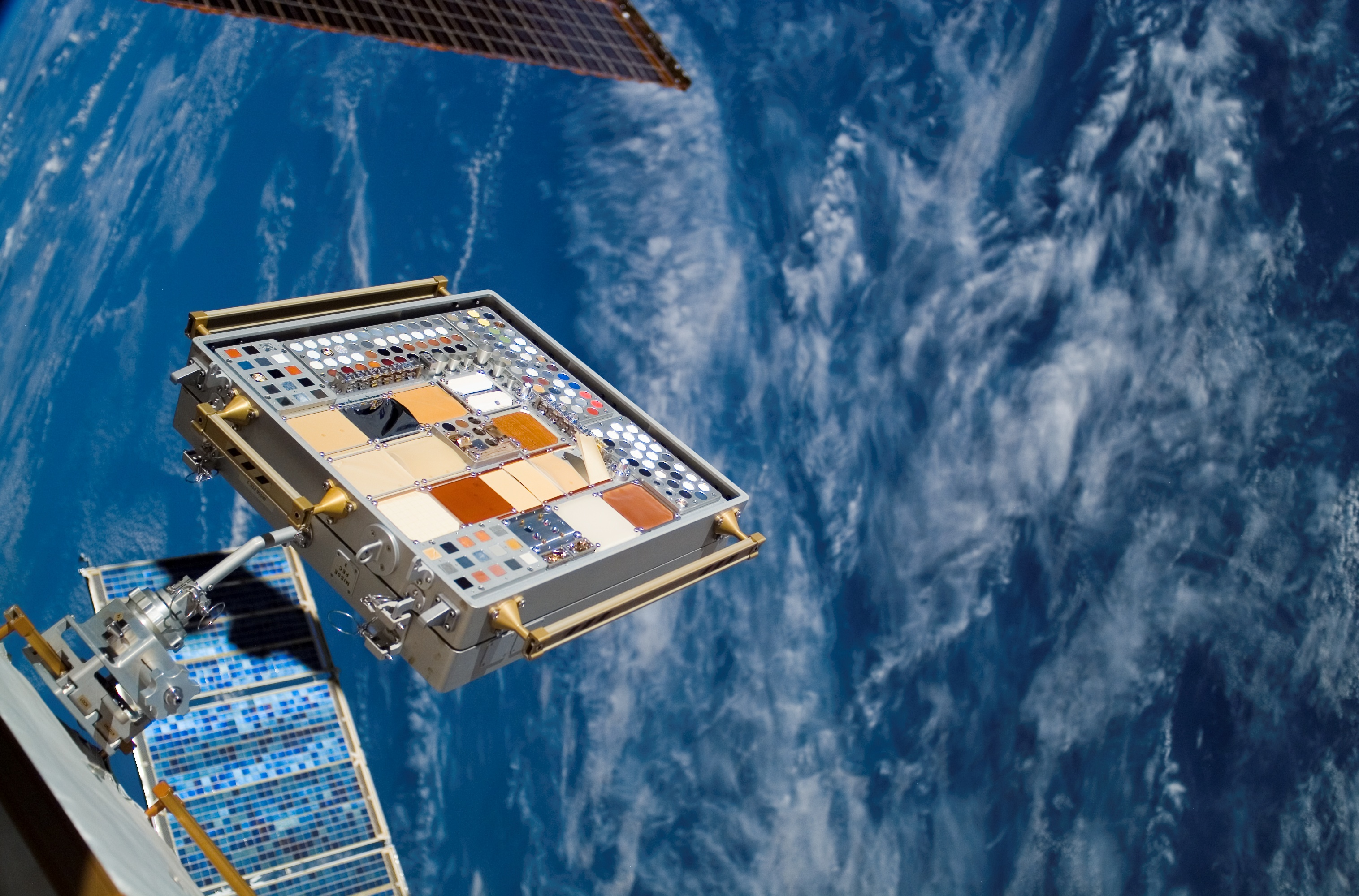 Backdropped by a blue and white Earth, a Materials International Space Station Experiment (MISSE) on the exterior of the station is featured in this image photographed by a crewmember during the STS-118 mission's second planned session of extravehicular activity (EVA). MISSE collects information on how different materials weather in the environment of space.